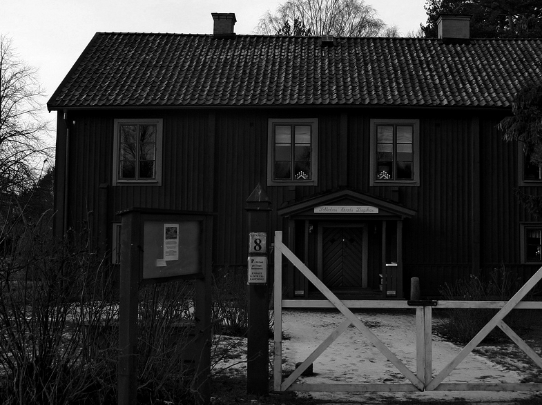 Tingshuset